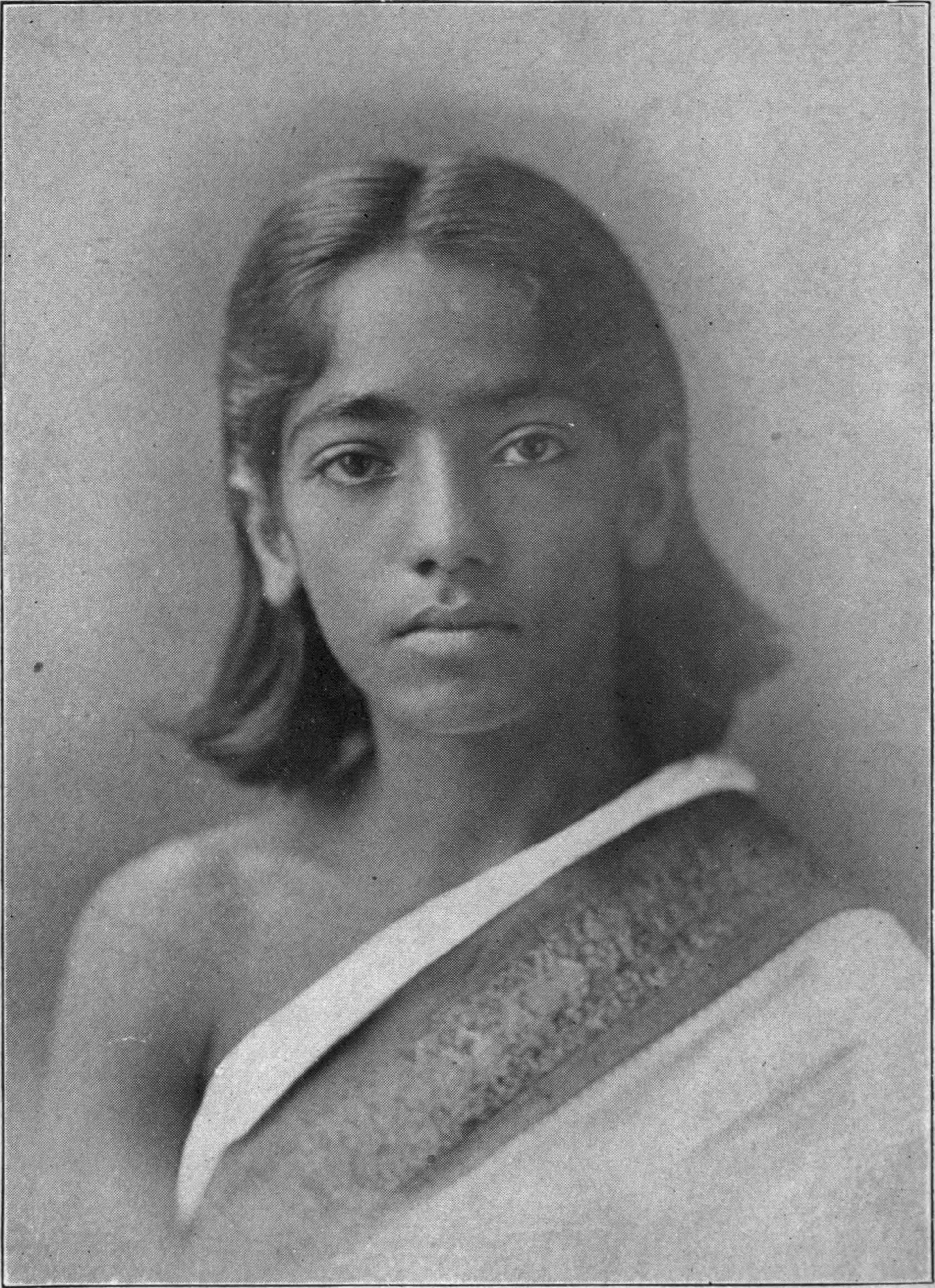 pg 2 of At the feet of the master.